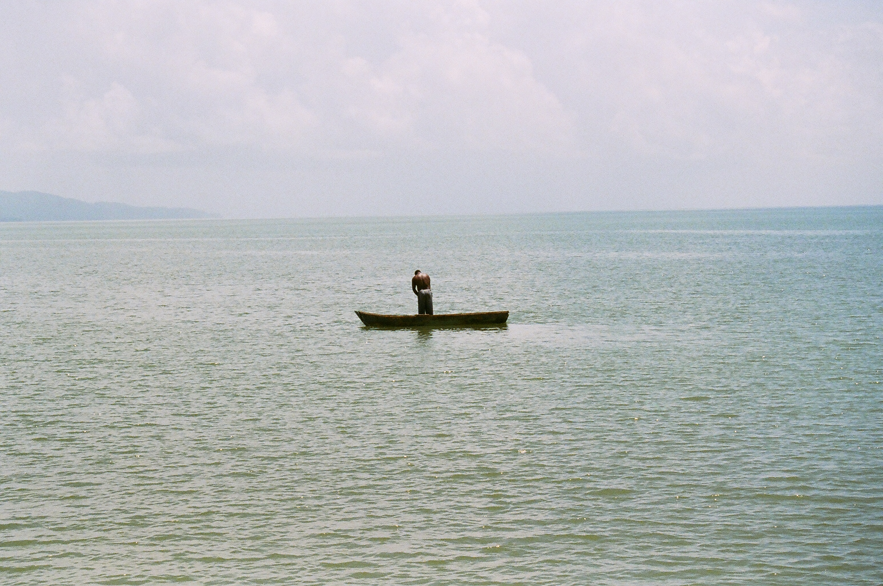 Sabana de la Mar is a gorgeous fishing within the Dominican Republic.